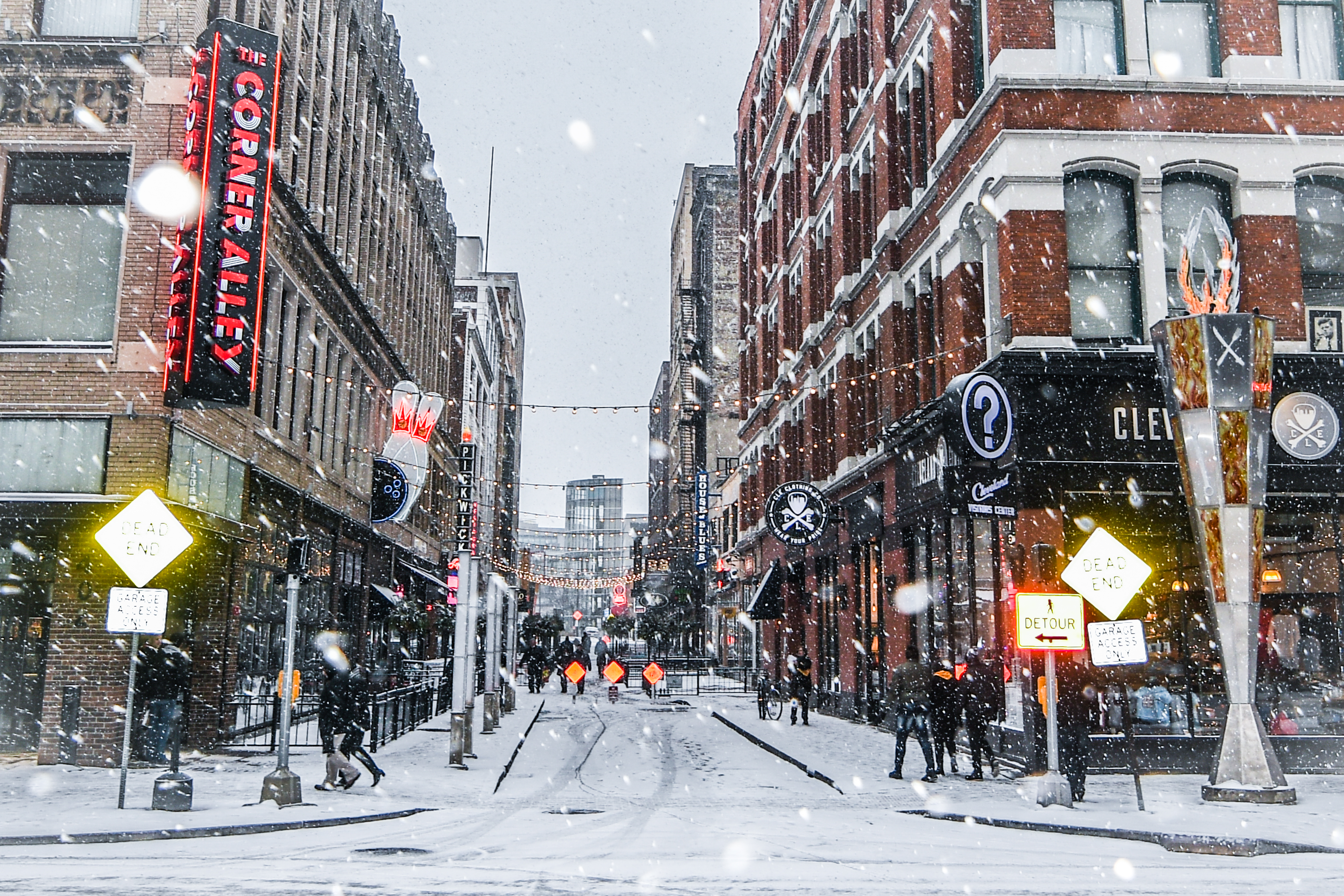 Cleveland Snow